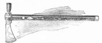 Indian hatchet pipe used by James Audubon